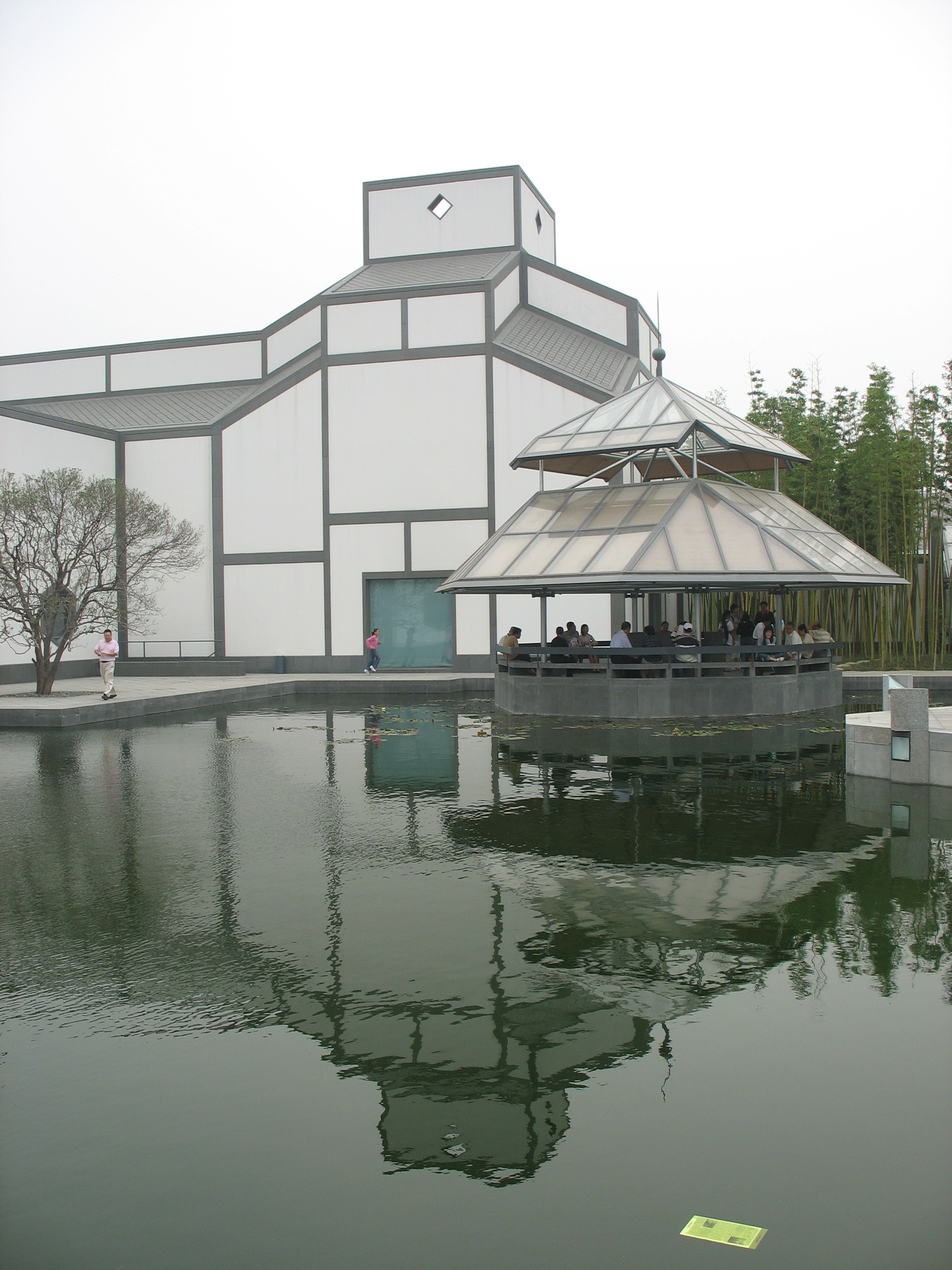 Garden of Suzhou Museum taken by universe729 on Oct. 22, 2006